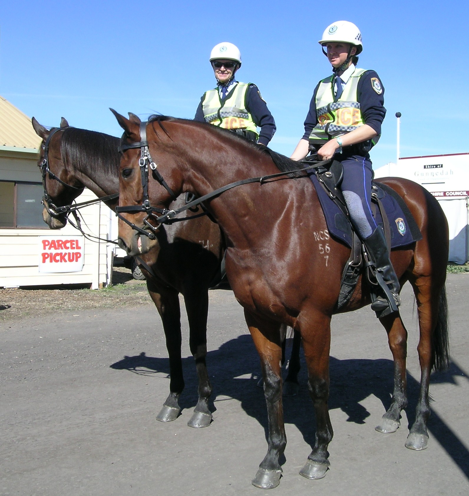 NSW Mounted Police officers on duty at AgQuip, Gunnedah.